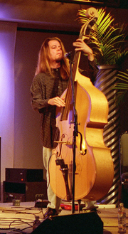 Photo of Mark Harmon the musician.